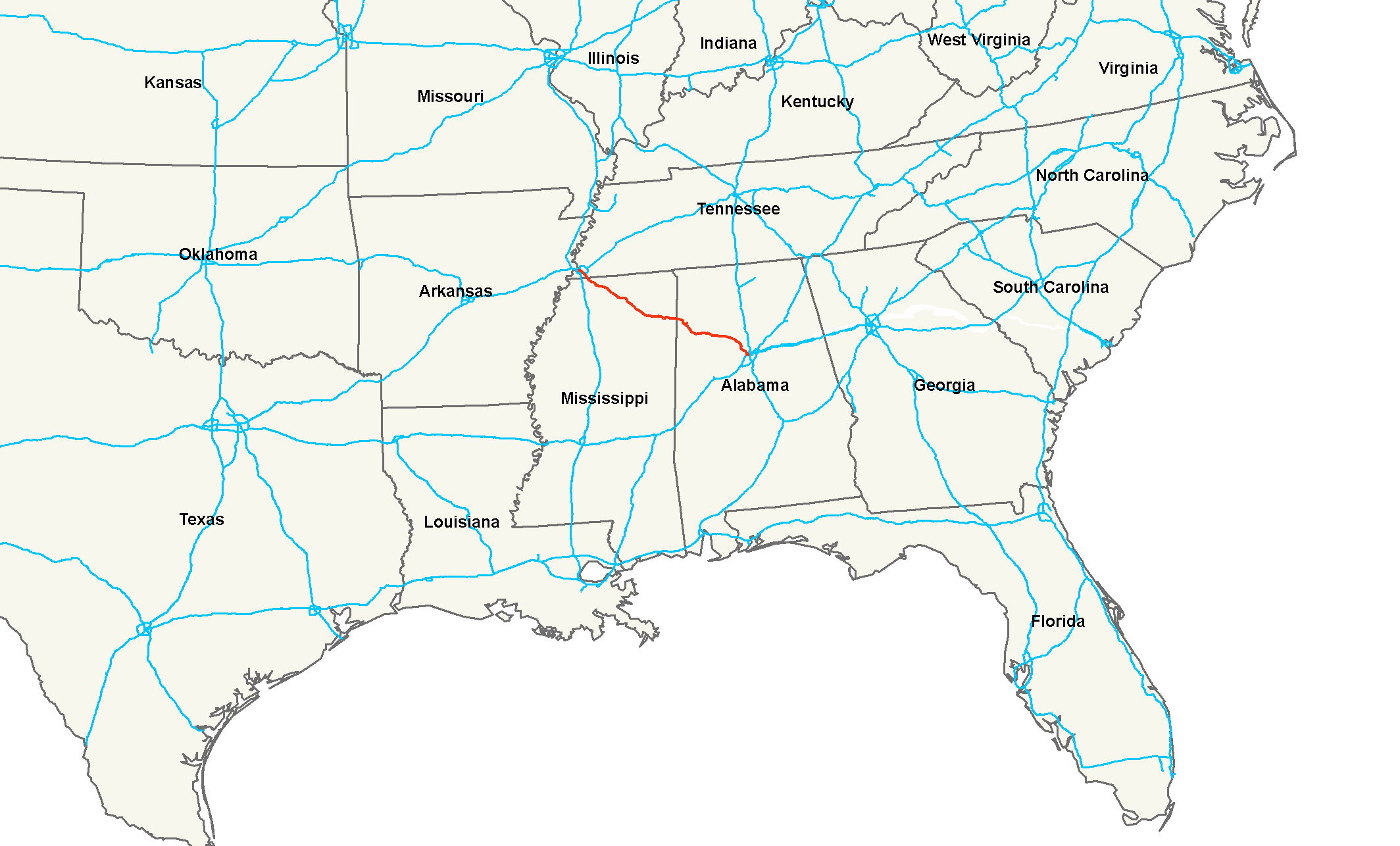 Map of I-22 highlighted in red.